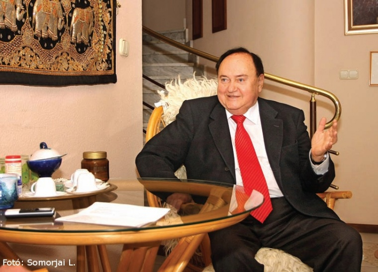 József Torgyán, earlier agriculture minister of Hungary